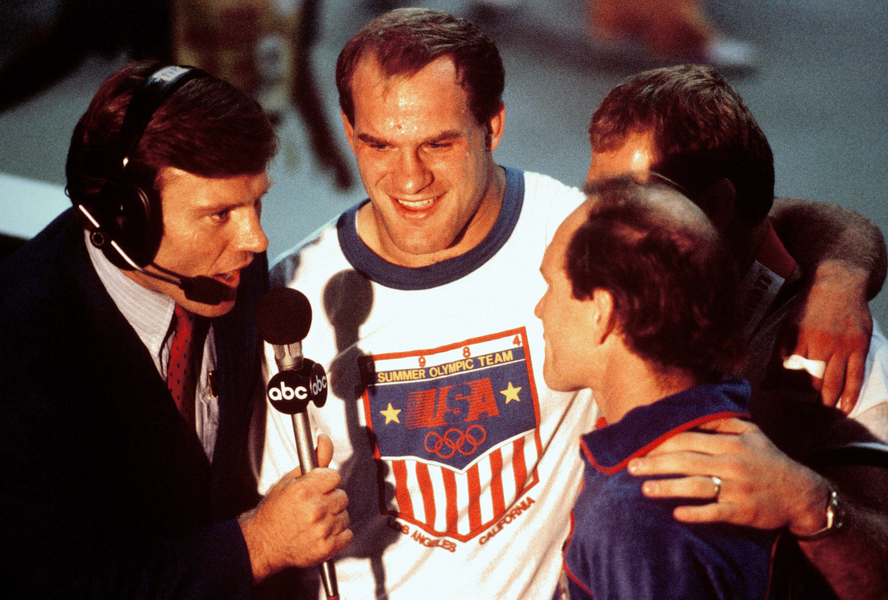 Ludwig Banach, second from left, is interviewed by an ABC television sports commentator after winning a gold medal in the 100 kg freestyle wrestling competition at the 1984 Summer Olympics.